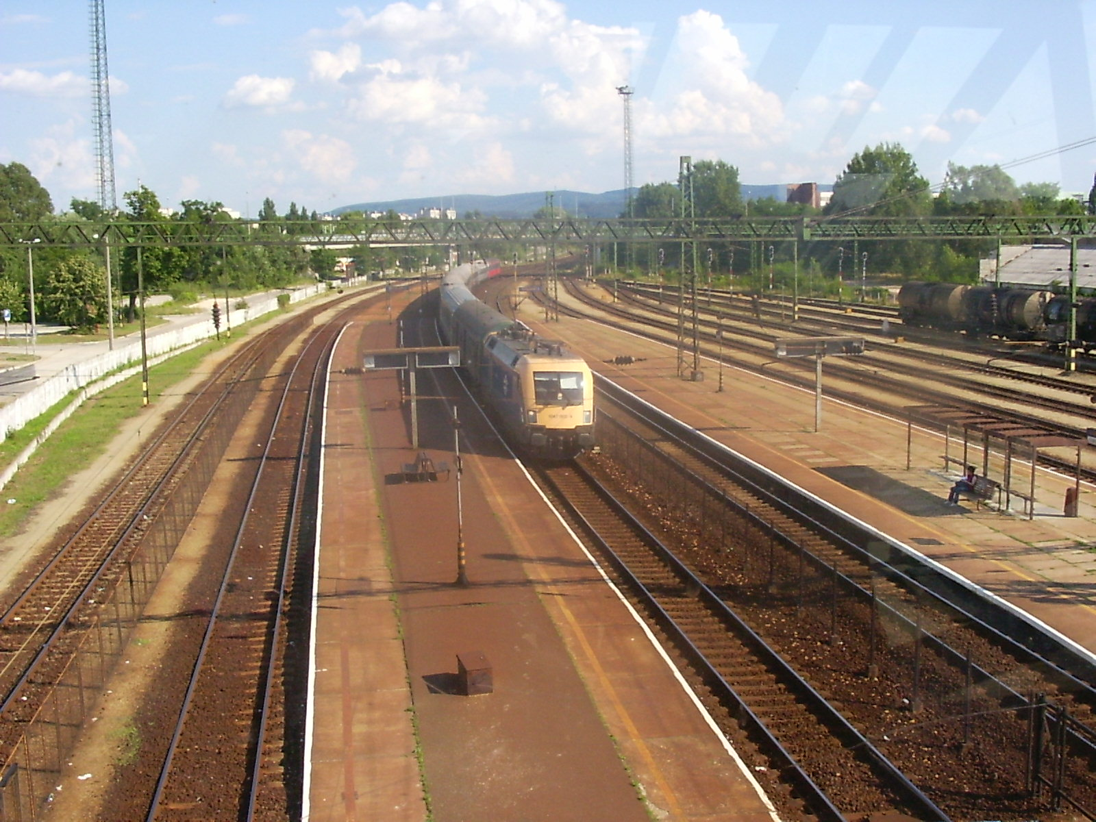 Tatabánya (former Felsőgalla) railway station, train from budapest arriving